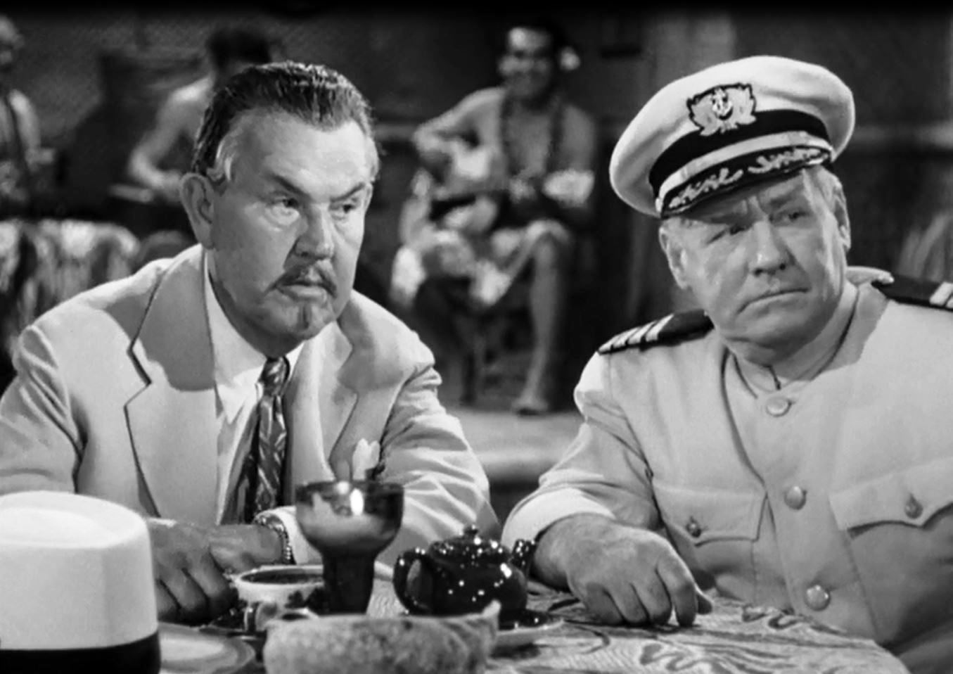 Low resolution screenshot of Sidney Toler as Charlie Chan and Joseph Crehan as Captain Black from the American film Dangerous Money (1946). The film is in the public domain due to the omission of a valid copyright notice on its original prints.